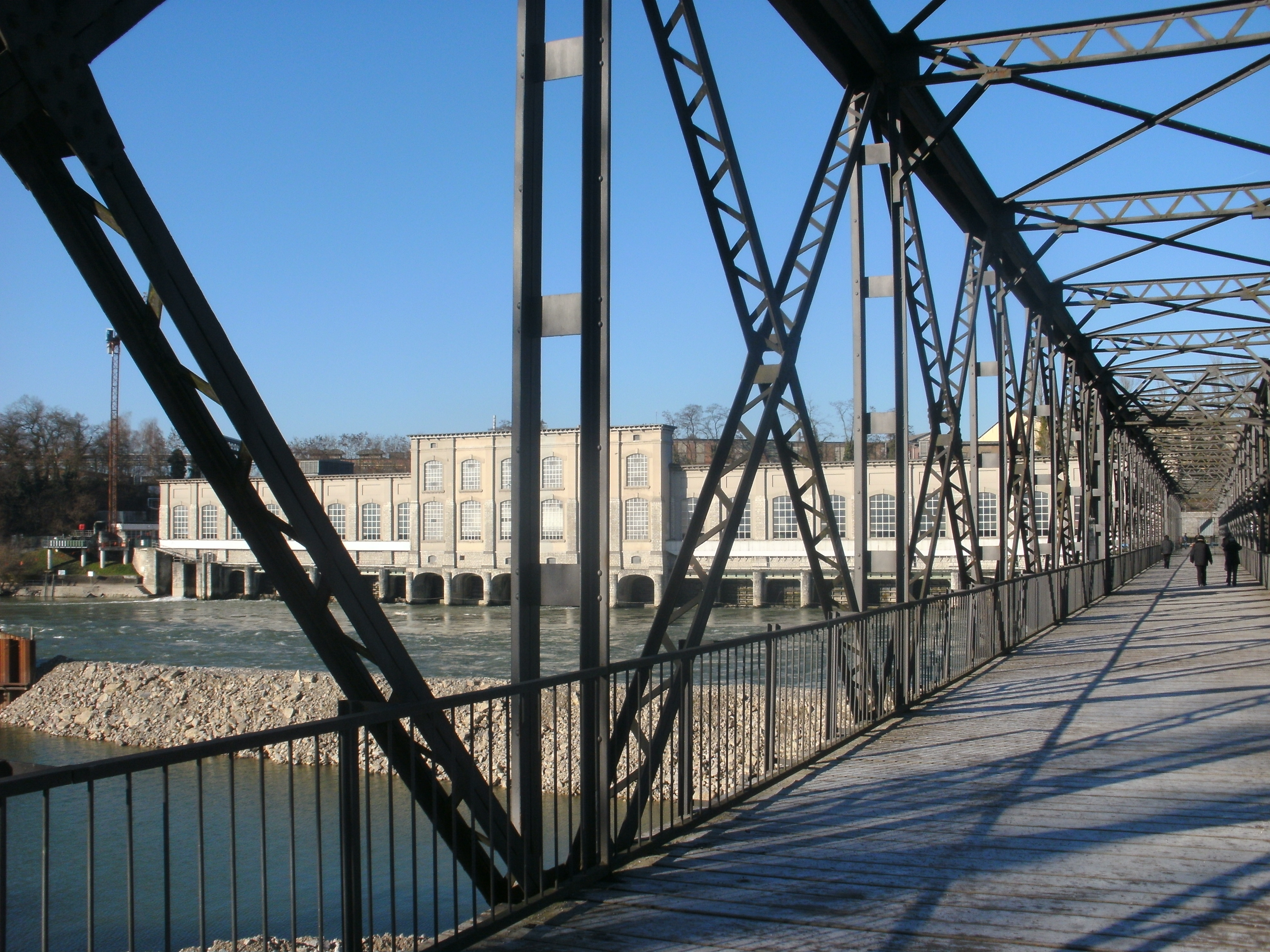 Former hydroelectric power station with corresponding iron bridge over the river Rhine at Rheinfelden (today both completely dismantled and removed).